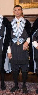 Former Captain Regent Alessandro Mancini of San Marino.